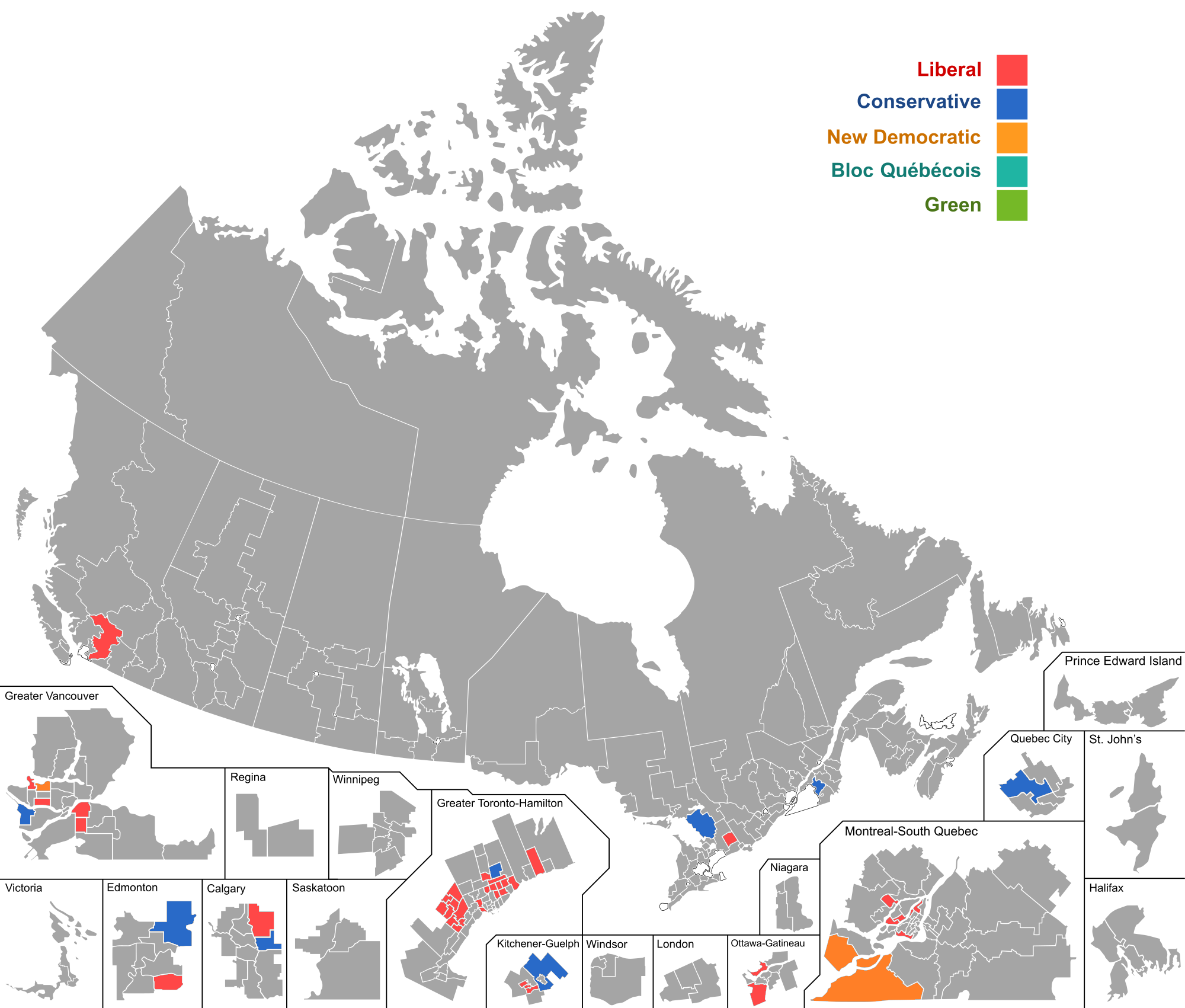 This map is based on the one created by User:DrRandomFactor. (